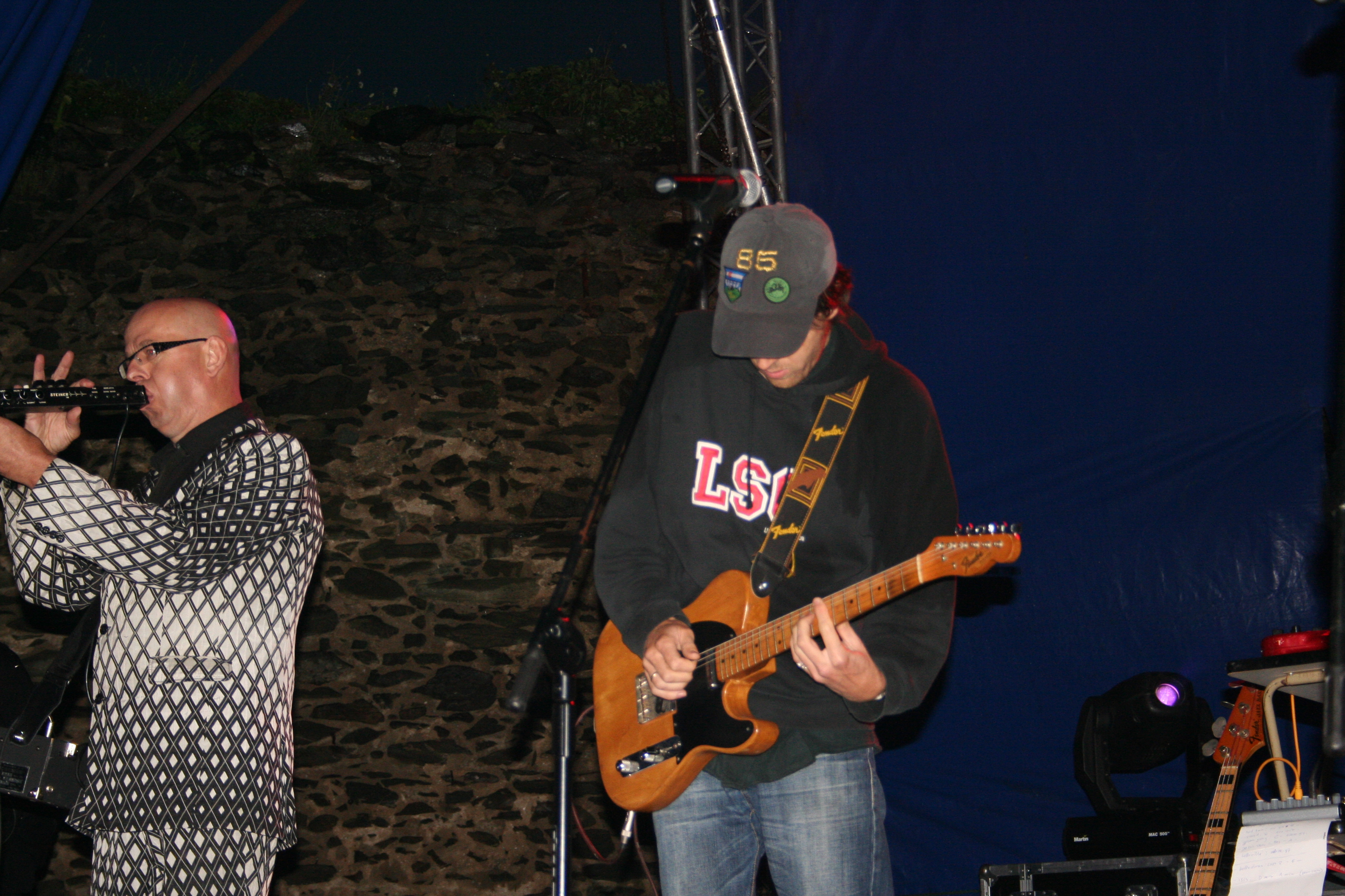 The Legendary Pink Dots, Castle Party 2007, Bolków